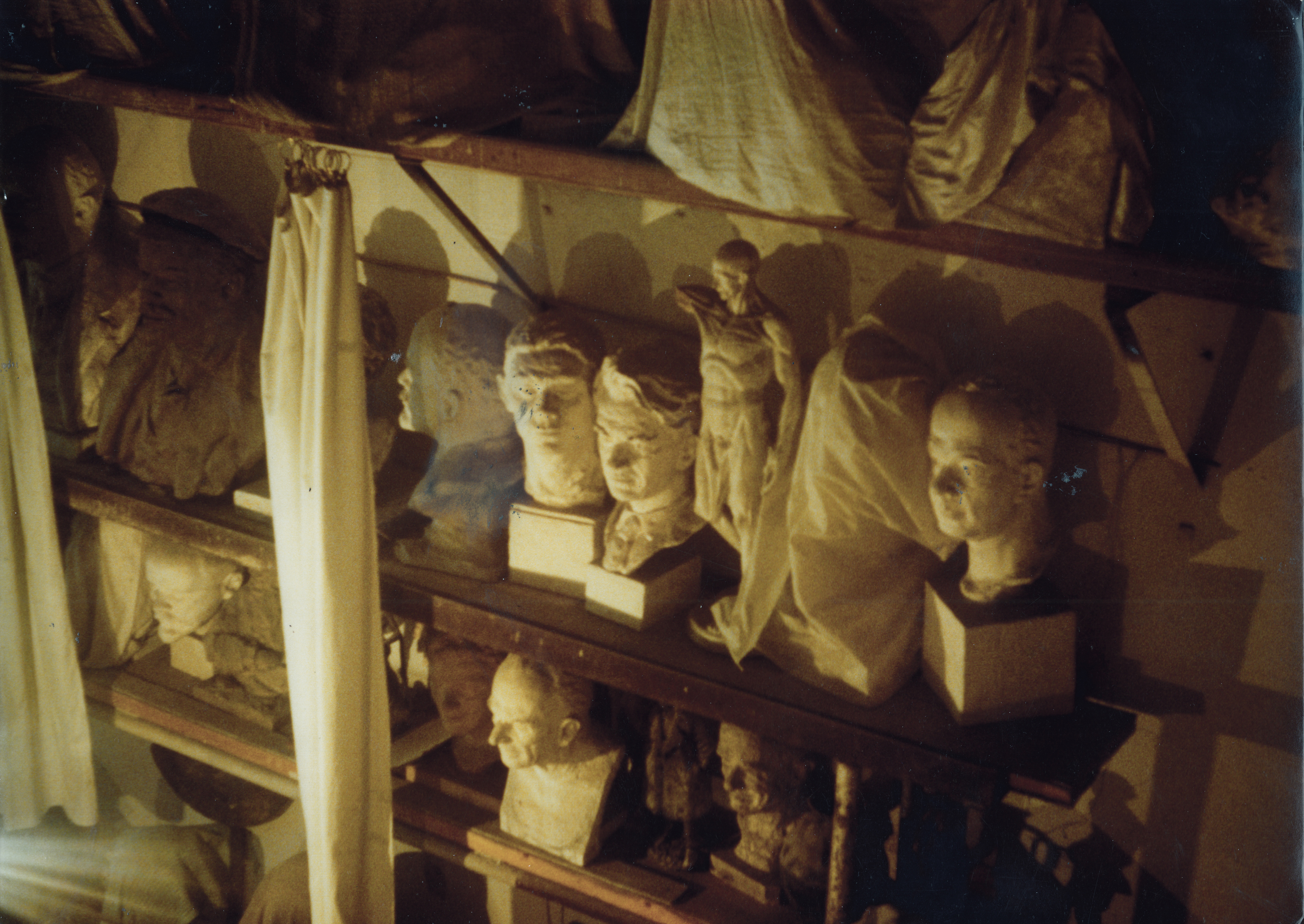 In Nina Niss-Goldman´s studio, Moscow, Verkhnyaya Maslovka st., about 1980.